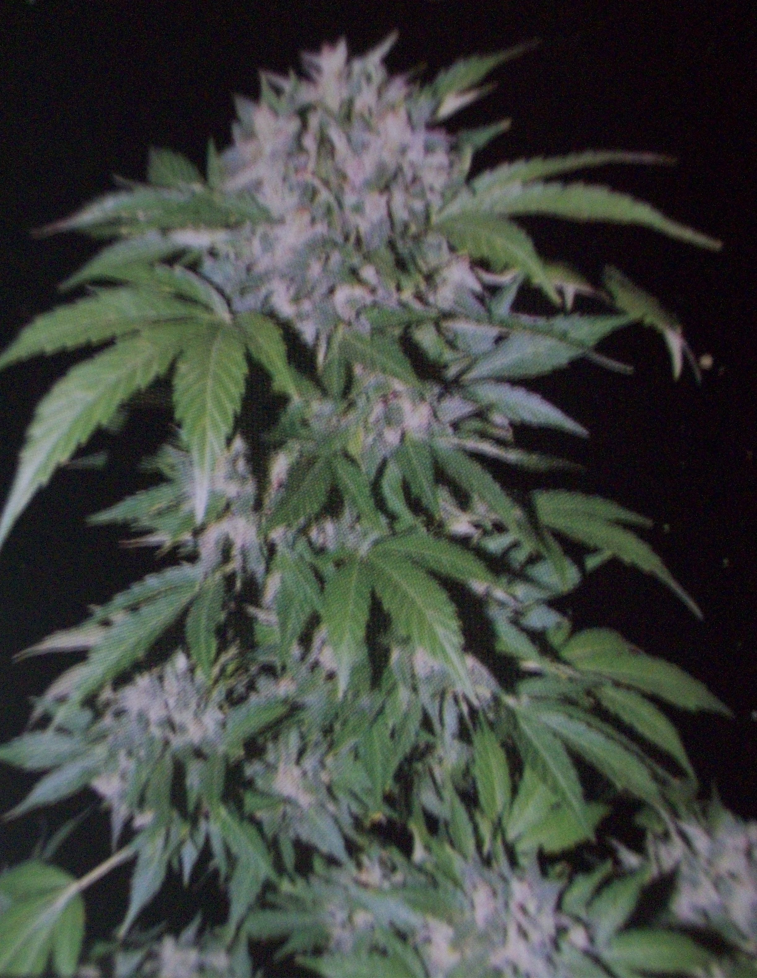 Auto AK47 during flowering